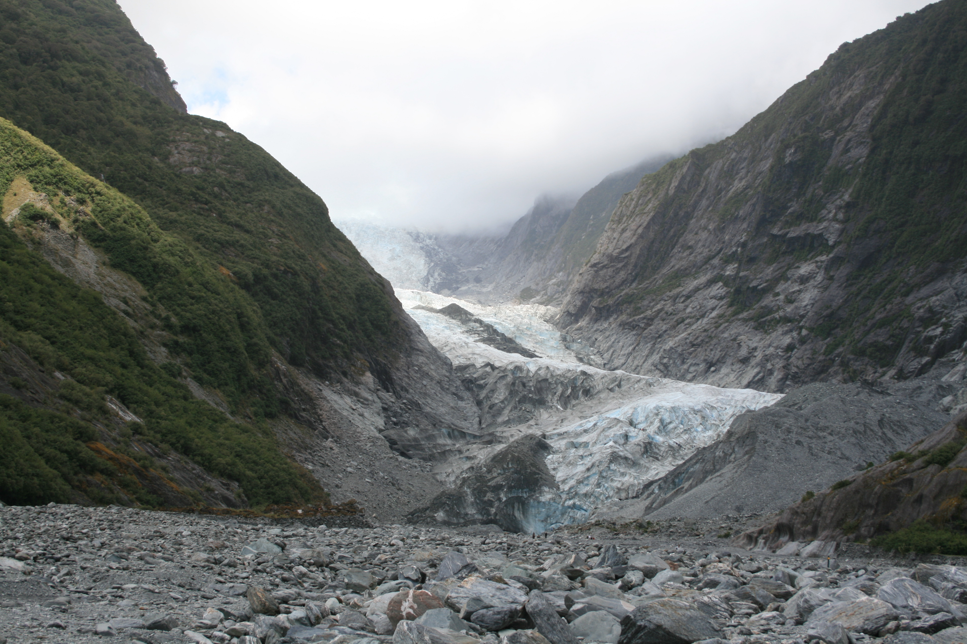 Franz Josef Glacier, New Zealand